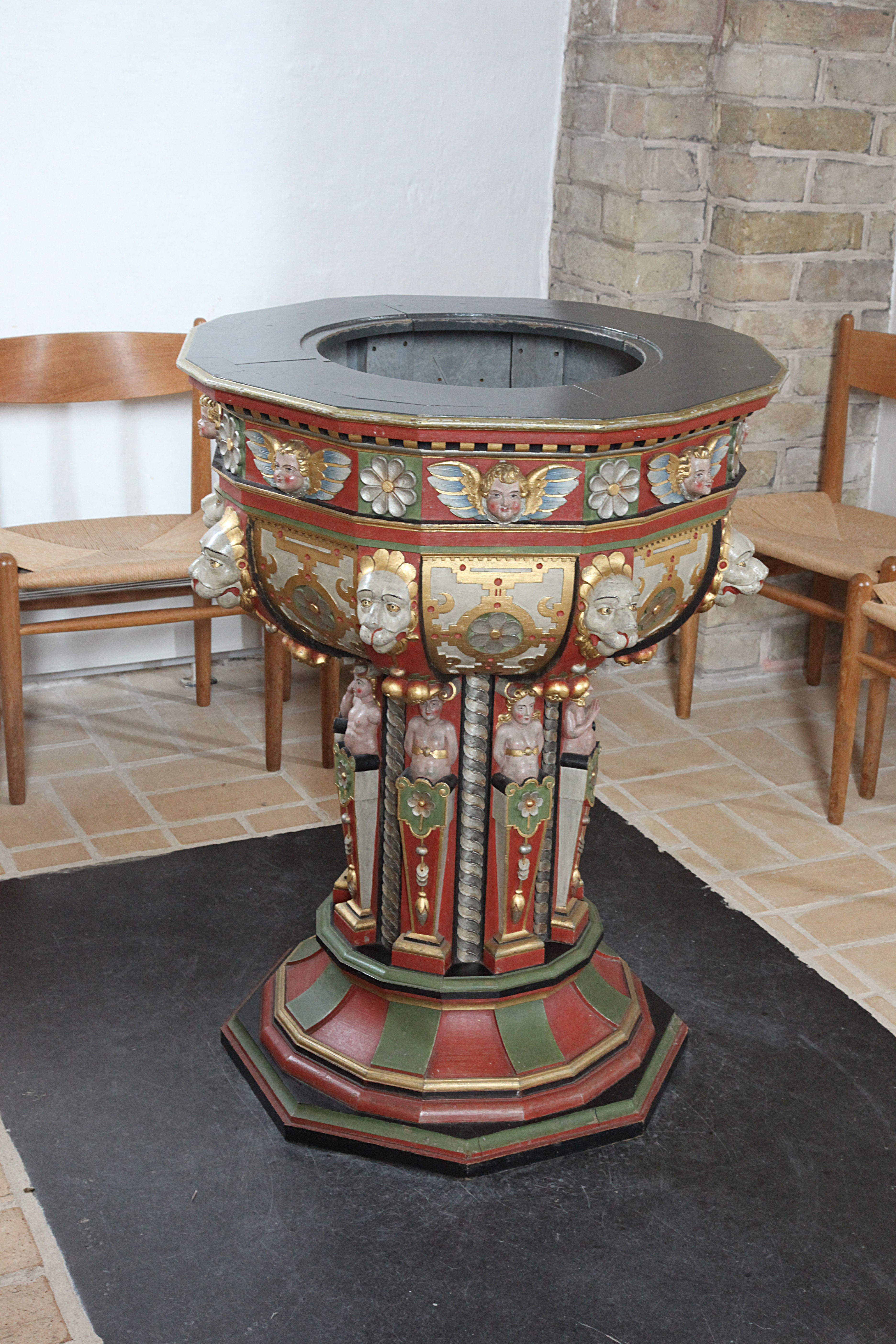 Baptismal font in Sulsted Kirke just north of Aalborg, Denmark